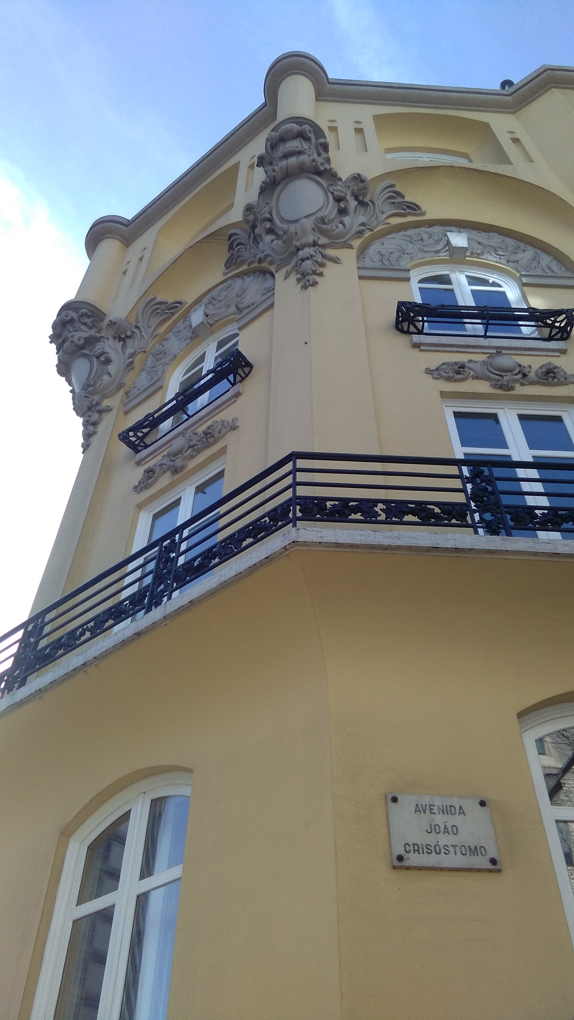 Building in Avenida da República, 23, Lisbon, awarded the Valmor Prize in 1913. The building was designed by the architect Miguel Nogueira for José A. Santos.